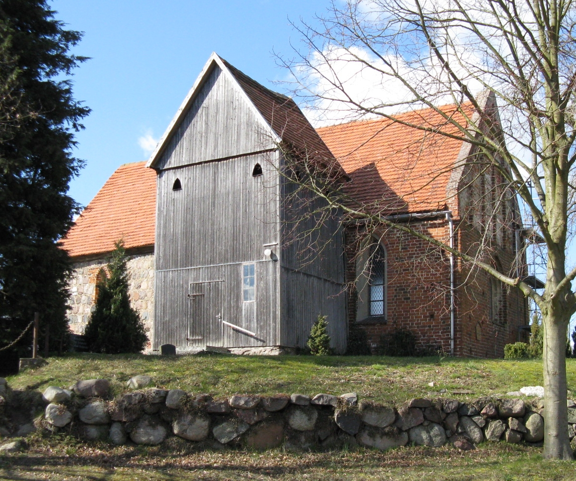 Church in Broock, Mecklenburg-Vorpommern, Germany